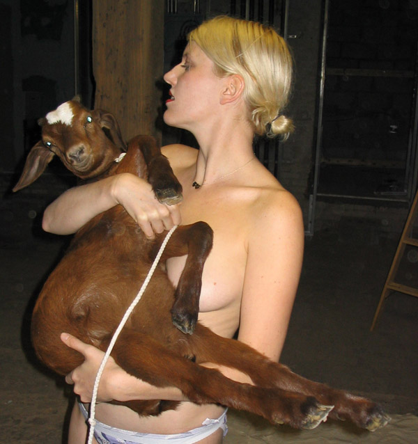 This image is of Chloe Piene holding a goat. It was taken in the Bronx, New York.